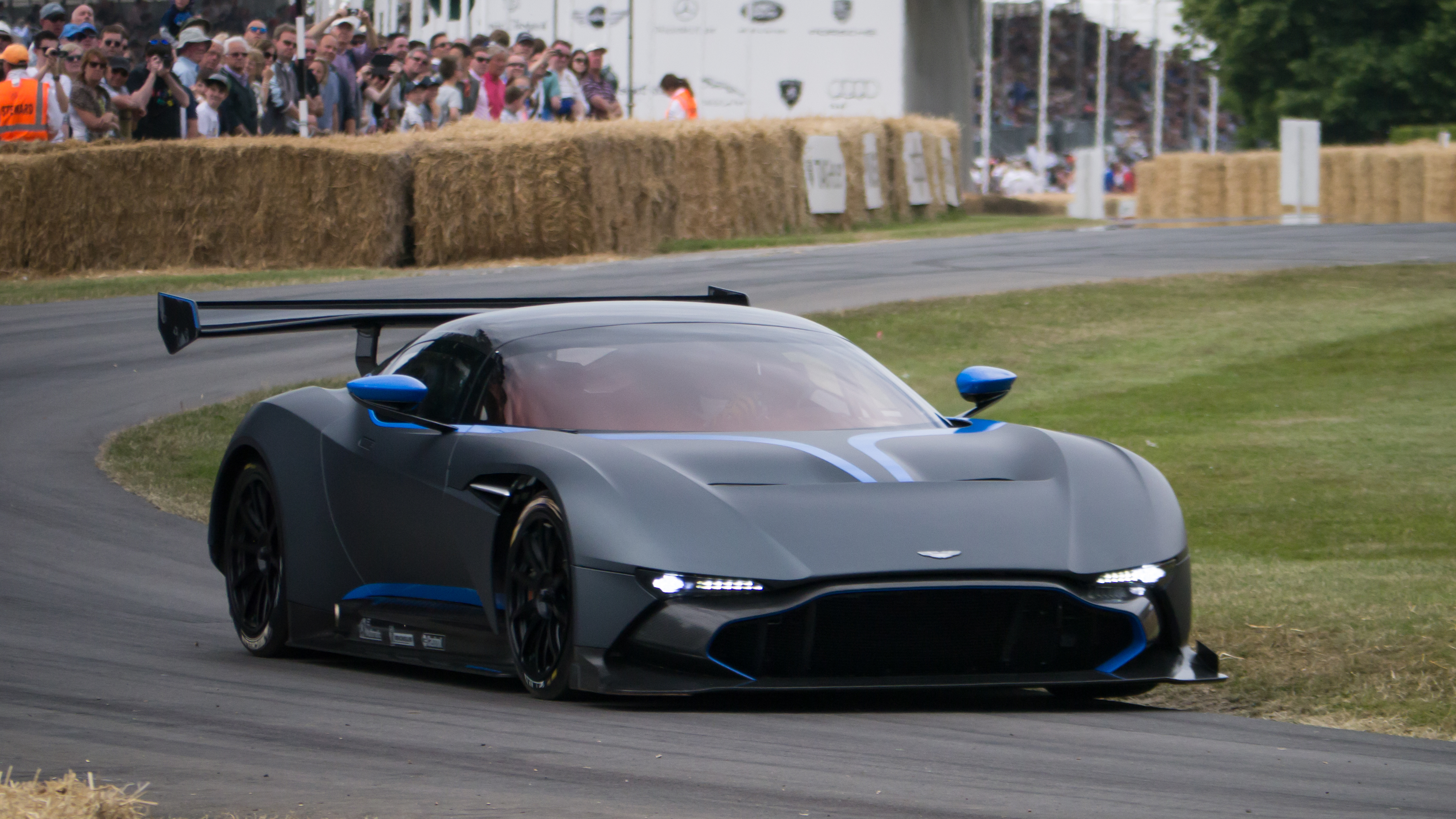 2015 Aston Martin Vulcan